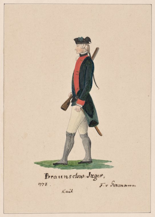 Watercolor of a Jäger from the Brunswick Corps